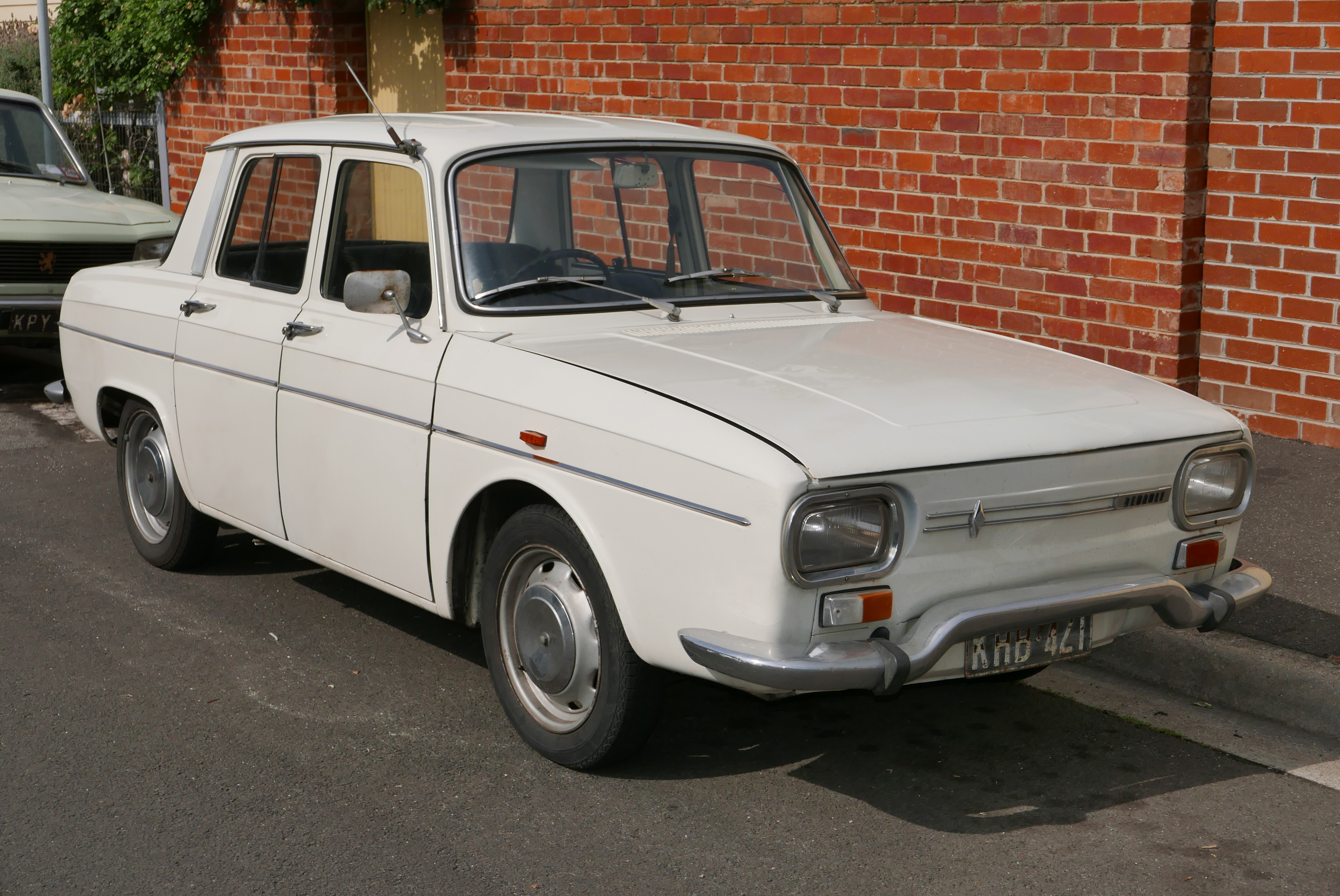 1969 Renault 10 sedan. Photographed in Ascot Vale, Victoria, Australia. Vehicle registration enquiry results Jurisdiction Victoria Registration KHB421 Chassis code Not available Engine code A10N724431 Compliance date Not available Year of manufacture 1969